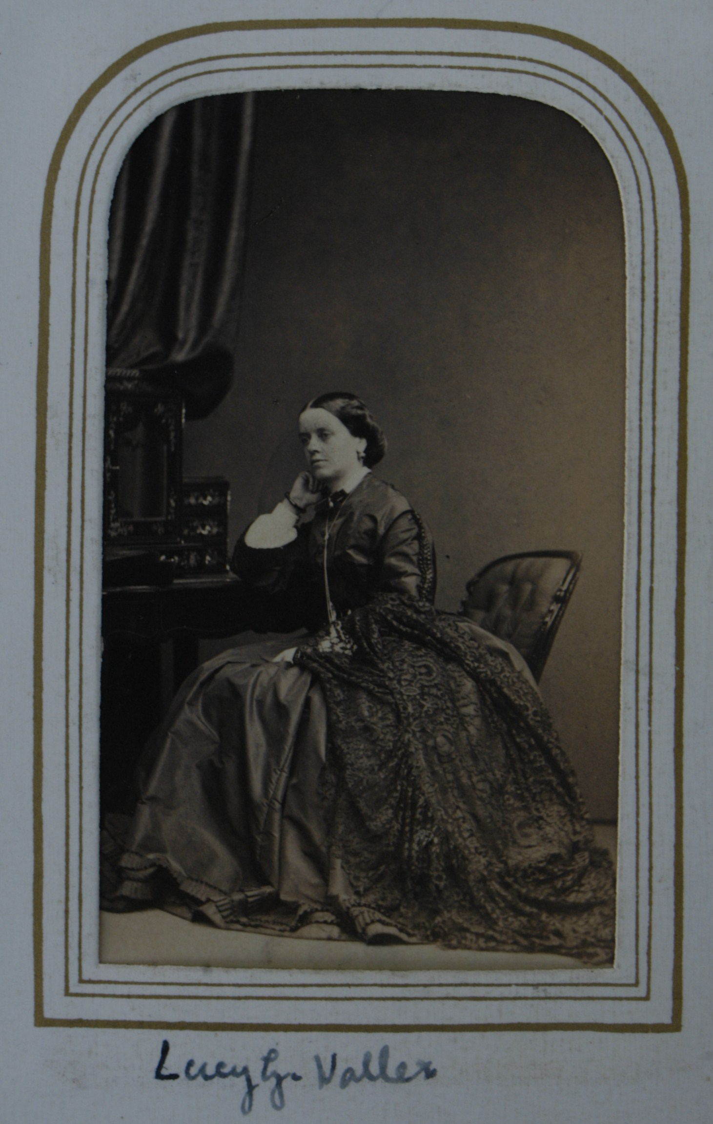 File:Carte de visite of Lucy Georgiana Elwes, (married Edmund Waller in 1859, and died 1878).jpg